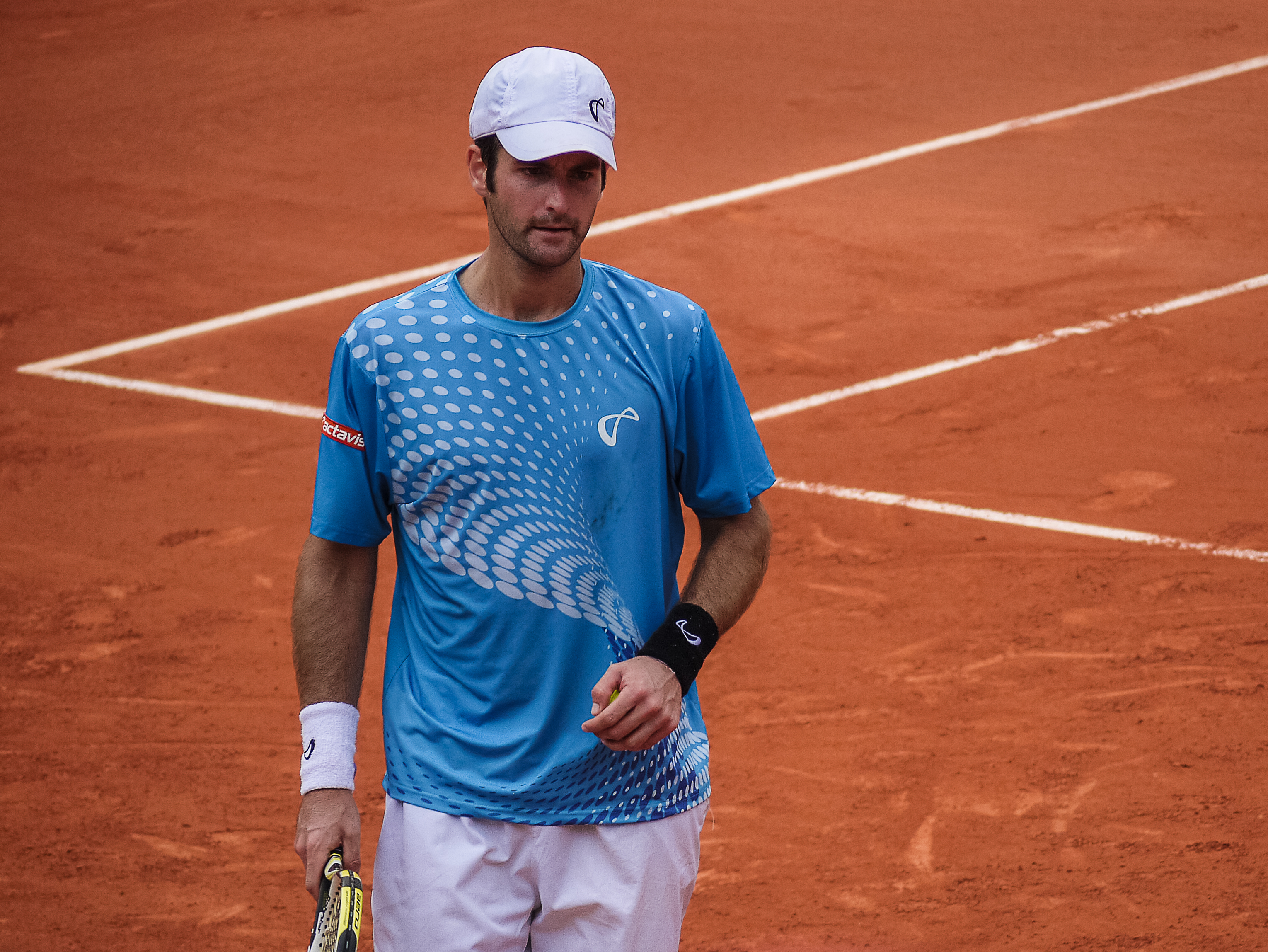 2ème tour Roland Garros 2012 : Gilles Simon (FRA) def. Brian Baker (USA)